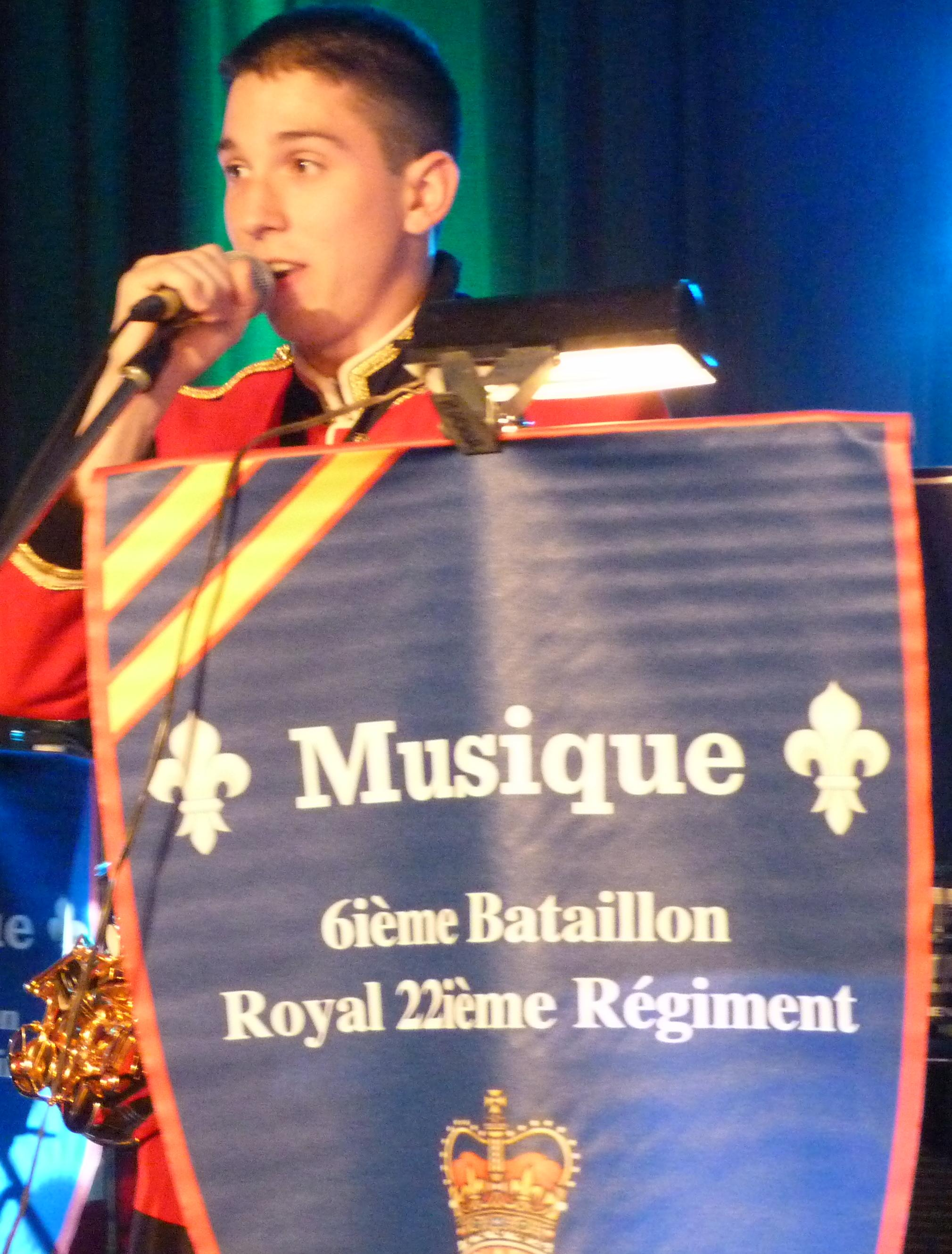 Music 6th Batallion Royal 22e Regiment performing during the 60th anniversary gala, Royal Military College Saint Jean Nov 2012